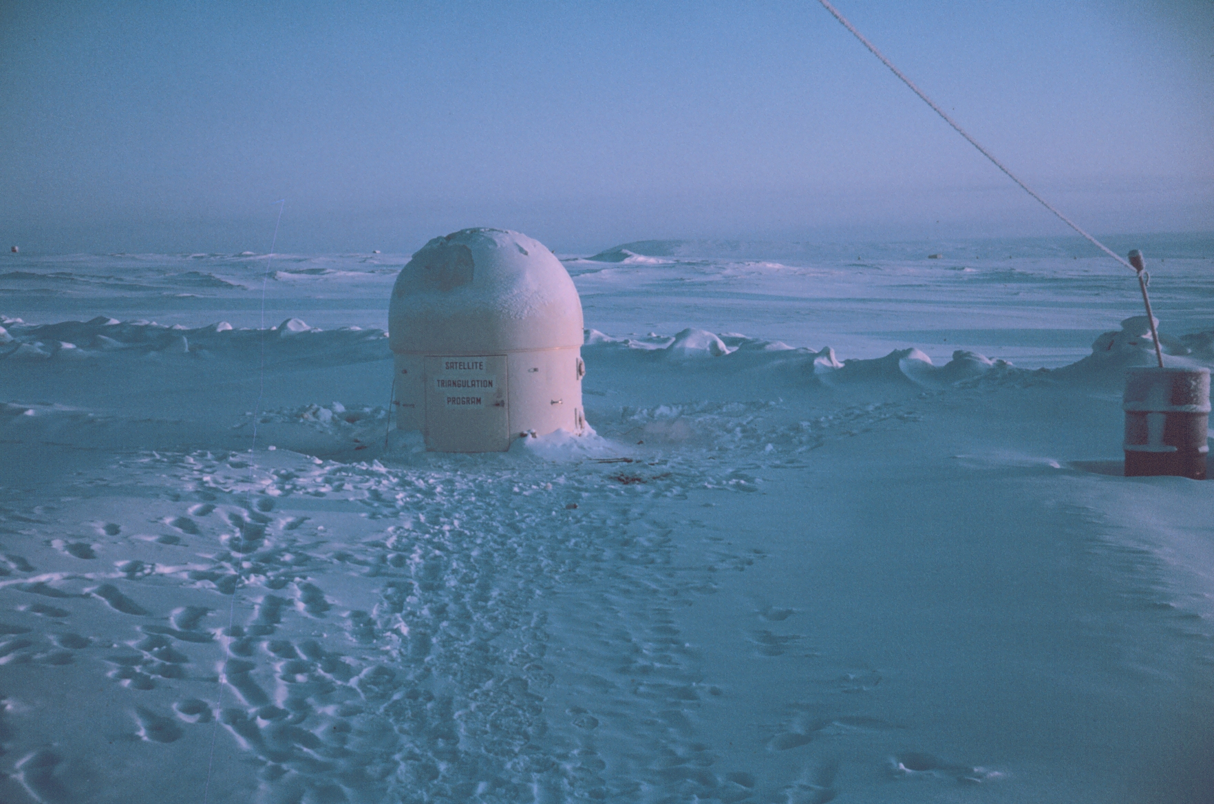 Station Number 129, Nord, Greenland